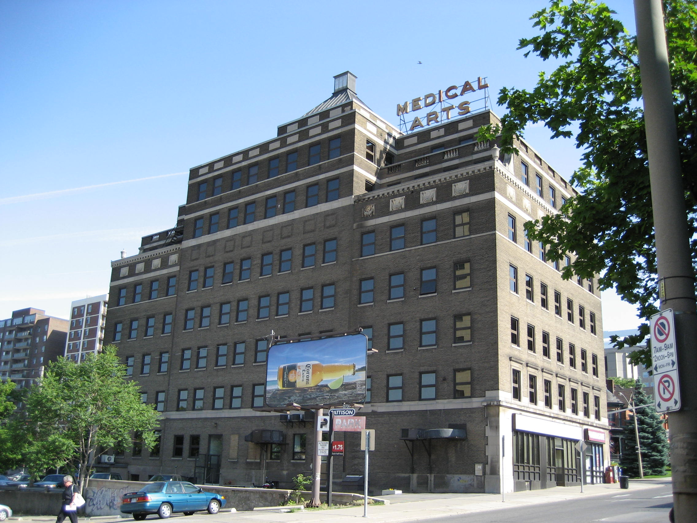 Medical Arts Building, James Street South, downtown Hamilton, Ontario